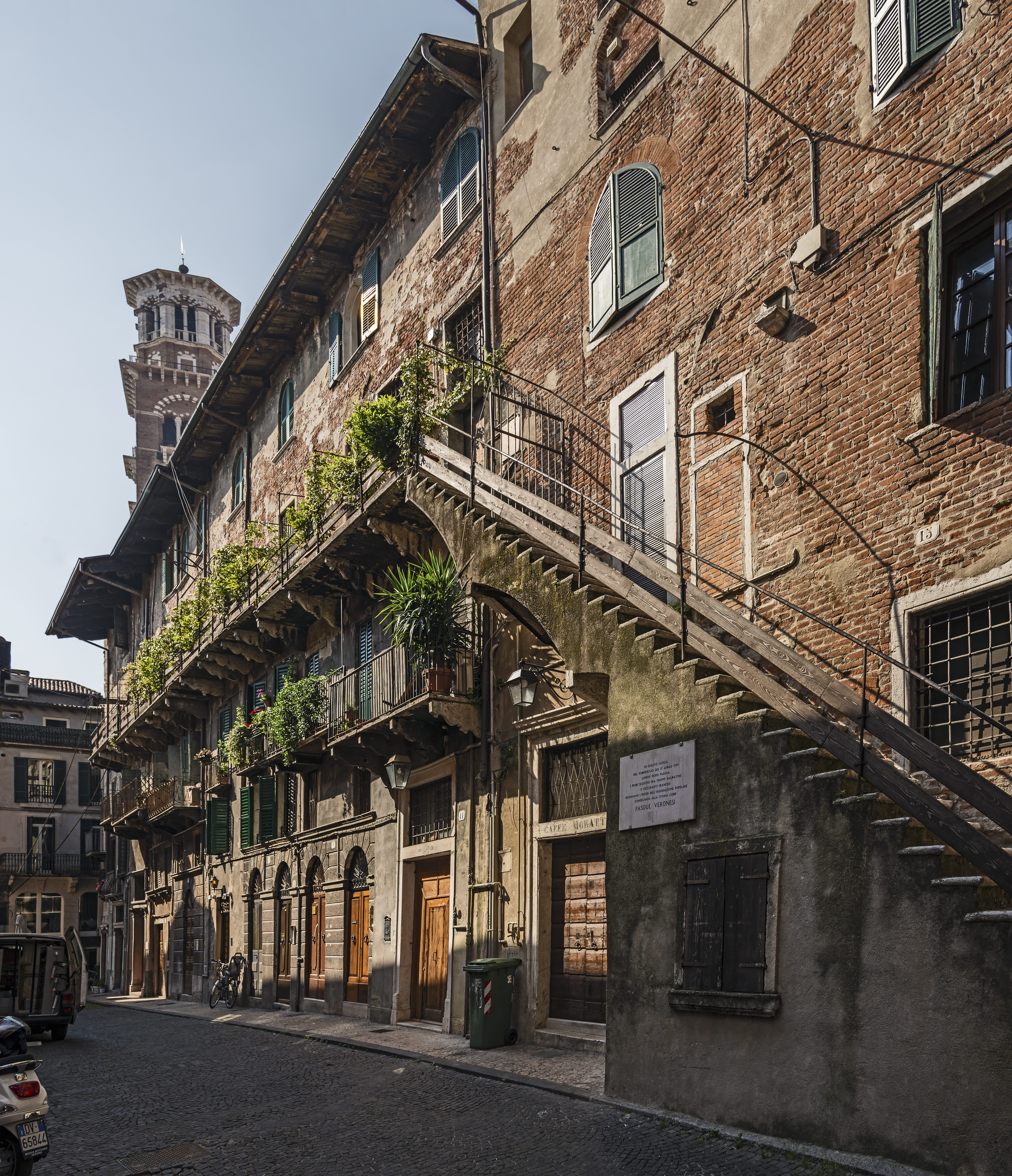 15, Via Mazzanti, Verona. Place where began the Veronese Easters afternoon of April 17, 1797.